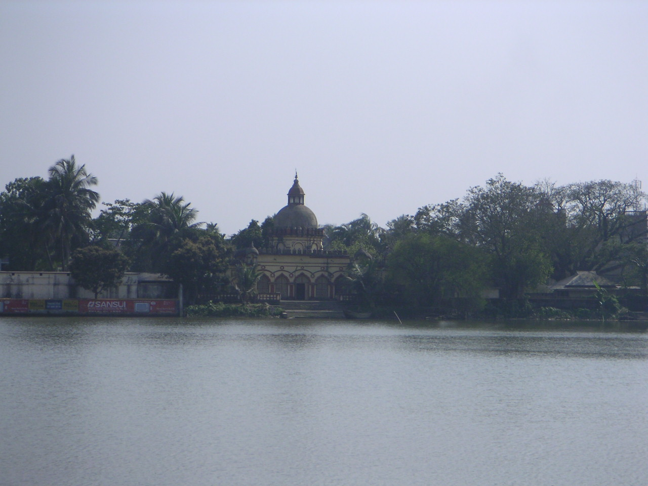 Temple at the Royal Palace compound Agartala, Tripura. Photo: Soman